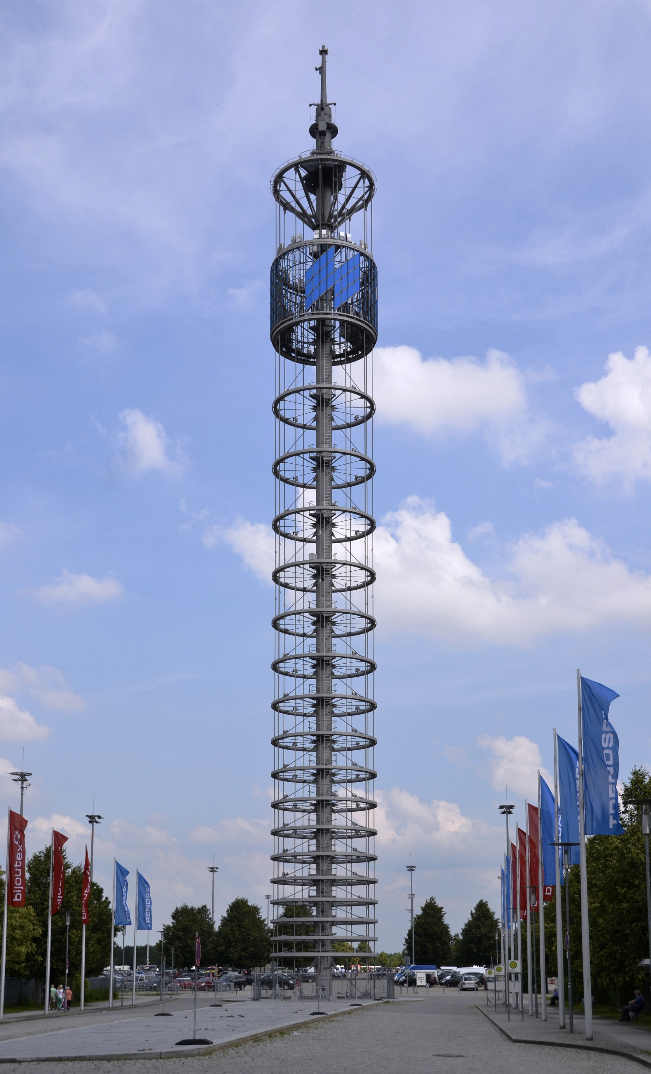 The Messeturm München in Riem/Munich.